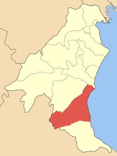 Locator map of Litohorou municipality (Δήμος Λιτοχώρου) at Pierias perfecture, Greece.